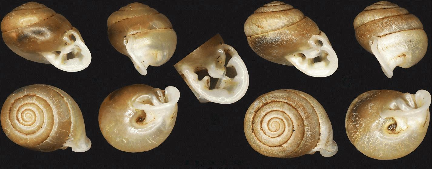 ZooKeys - Perrottetia dermapyrrhosa Cut-out from original (Shells of Perrottetia species - ZooKeys-287-041-g003.jpeg) shown below